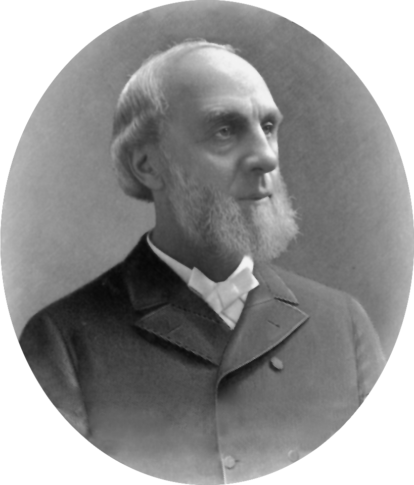 Associate Justice Charles E. Vanderburgh, of the Minnesota Supreme Court